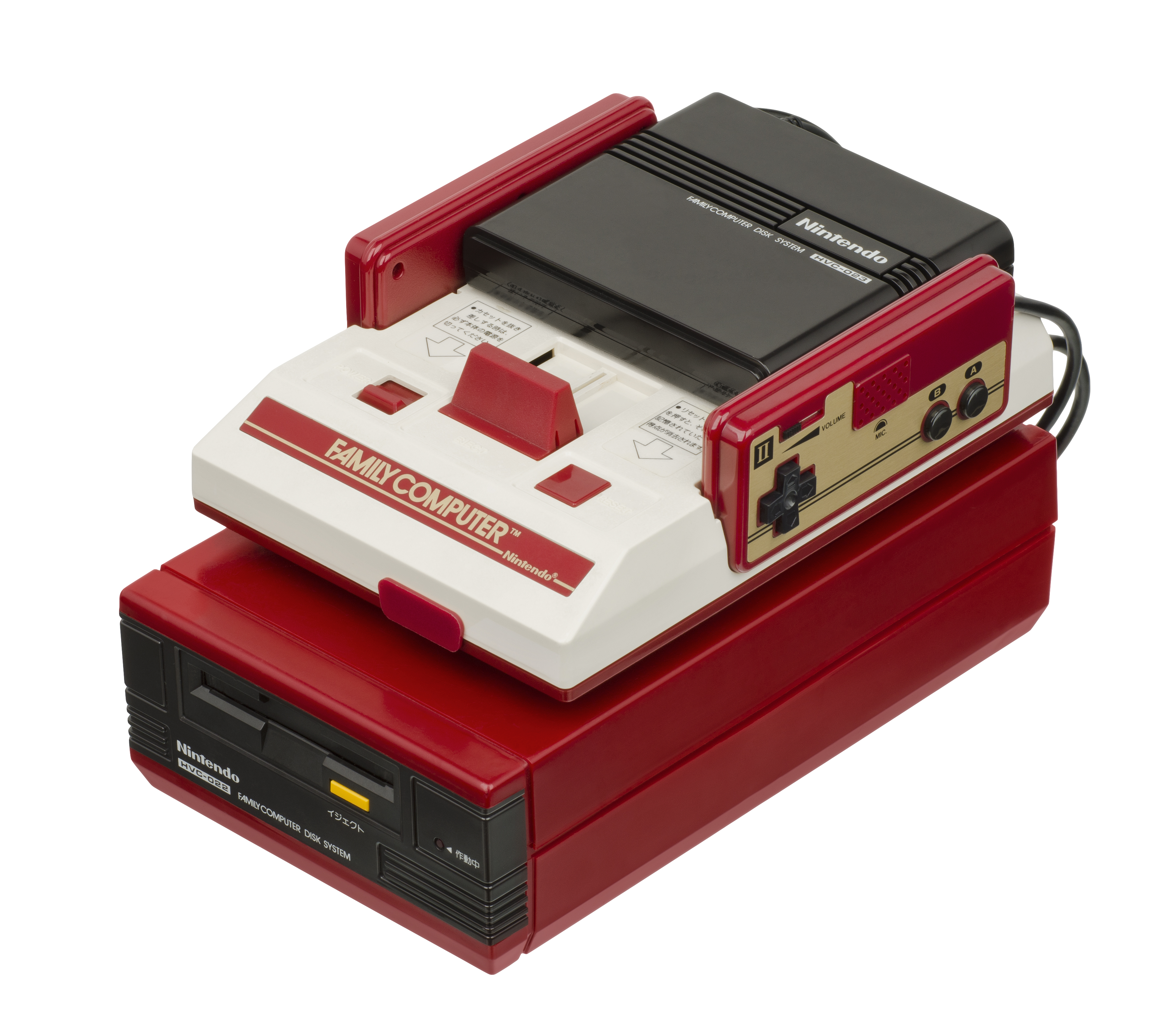 A Japanese Nintendo Famicom shown with the Disk System add-on.